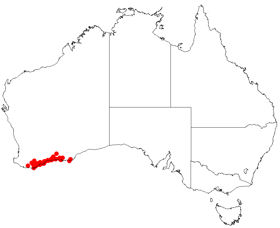 Hakea denticulata Occurrence data downloaded from Australasian Virtual Herbarium on 22 November 2018 using